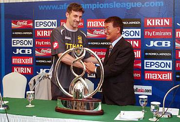 Dragan Talajić at the finals of the AFC Champions League 2004.